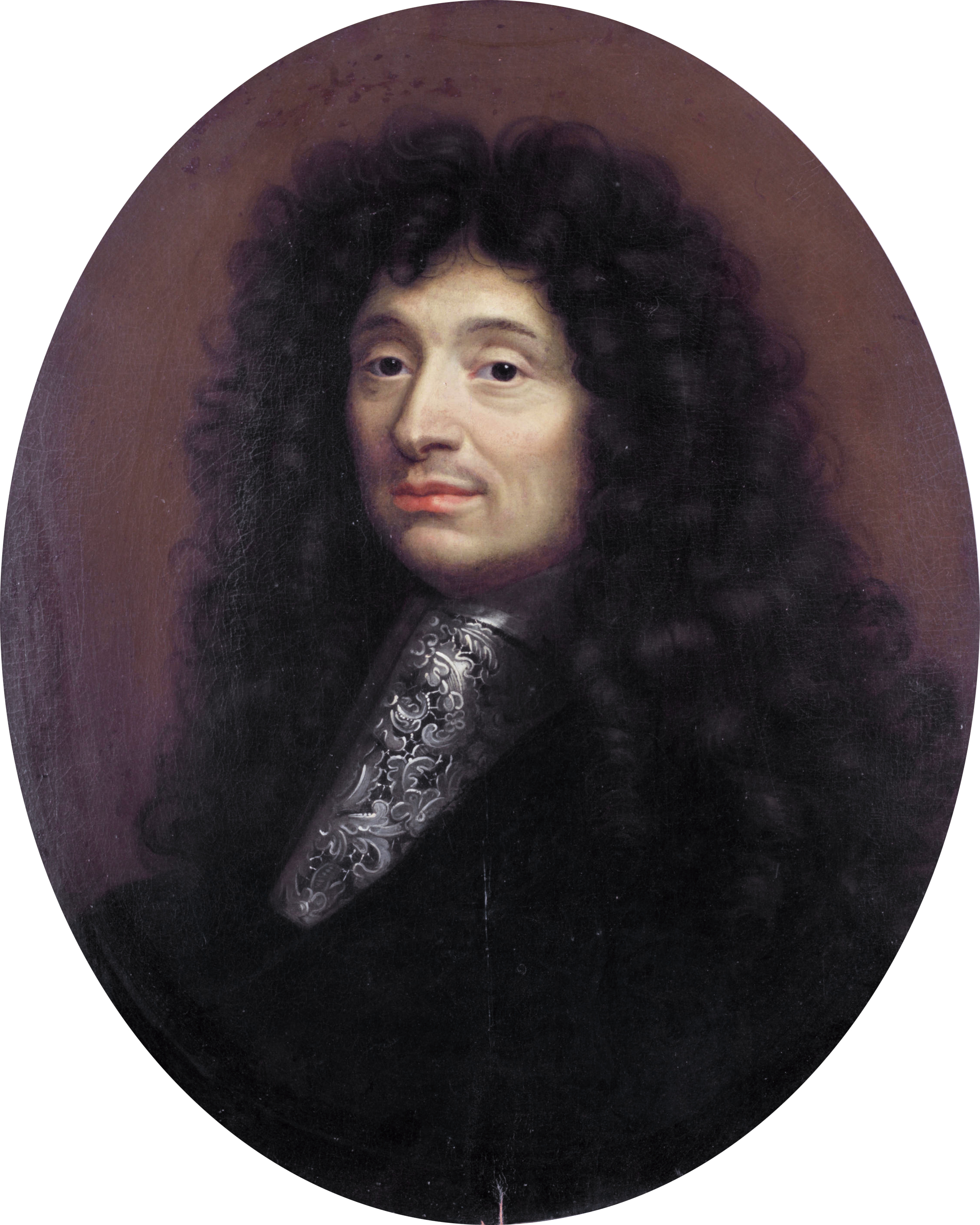 Simon Arnauld, Marquis de Pomponne (1618-1699) oil on panel 69.5 x 57.5cm inscribed verso: M.r De Pomponne